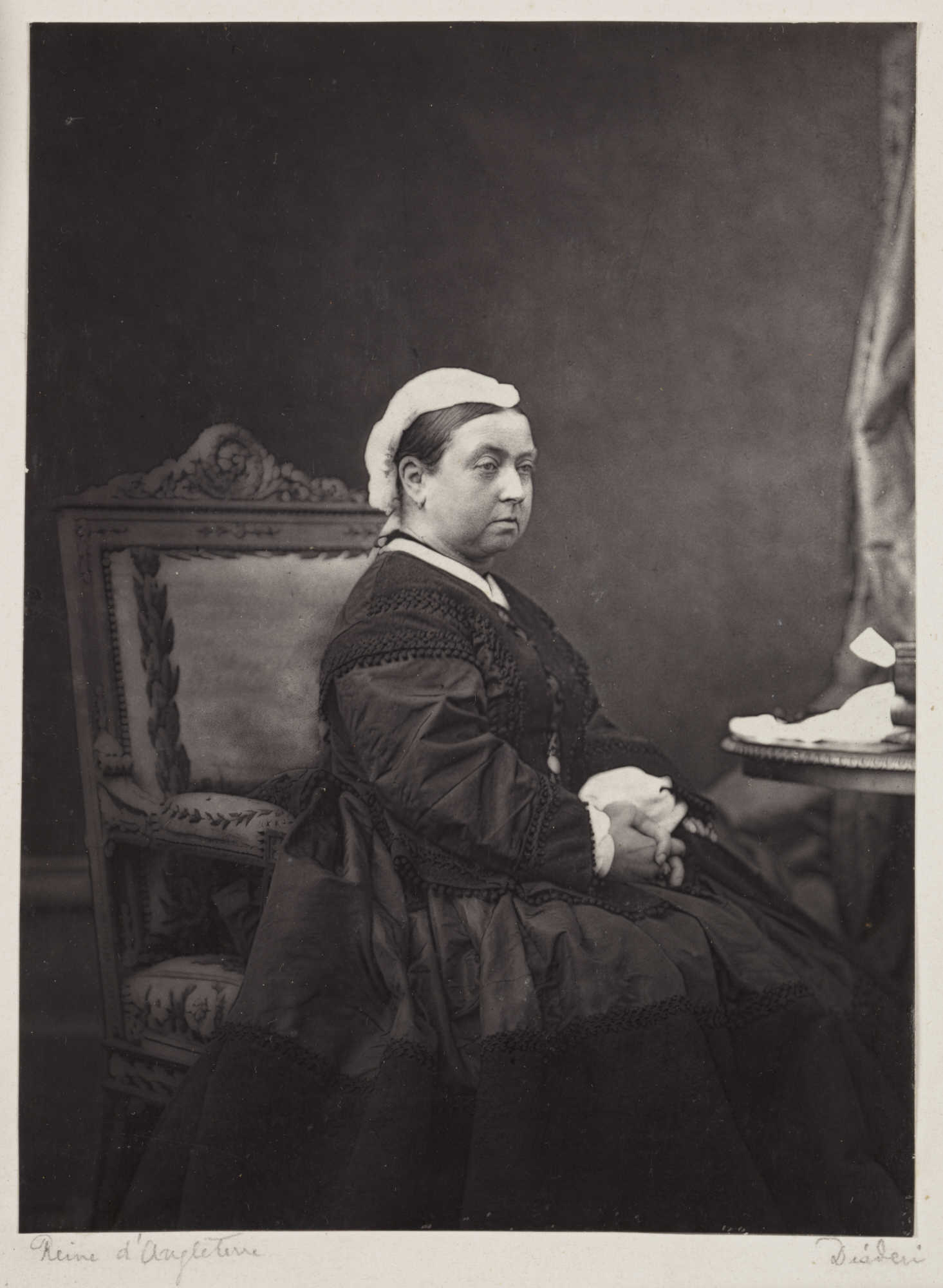 By Andre-Adolphe-Eugene Disderi A cabinet card sized woodburytype of Queen Victoria (1819-1901), taken in about 1870 by the French photographer Disderi (1819-1889). This is from the 'Disderi' album in the RPS collection. Queen Victoria reigned from 20 June 1837 until her death in 1901. She married her first cousin, Prince Albert of Saxe-Coburg and Gotha in 1840 and had 9 children. After Albert died in 1861 Victoria avoided public appearances and plummeted into deep mourning. She reigned for 63 years and 7 months, the longest reign of any British monarch.